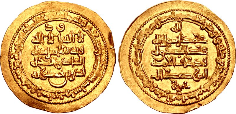 Coin of Badr ibn Hasanwayh.